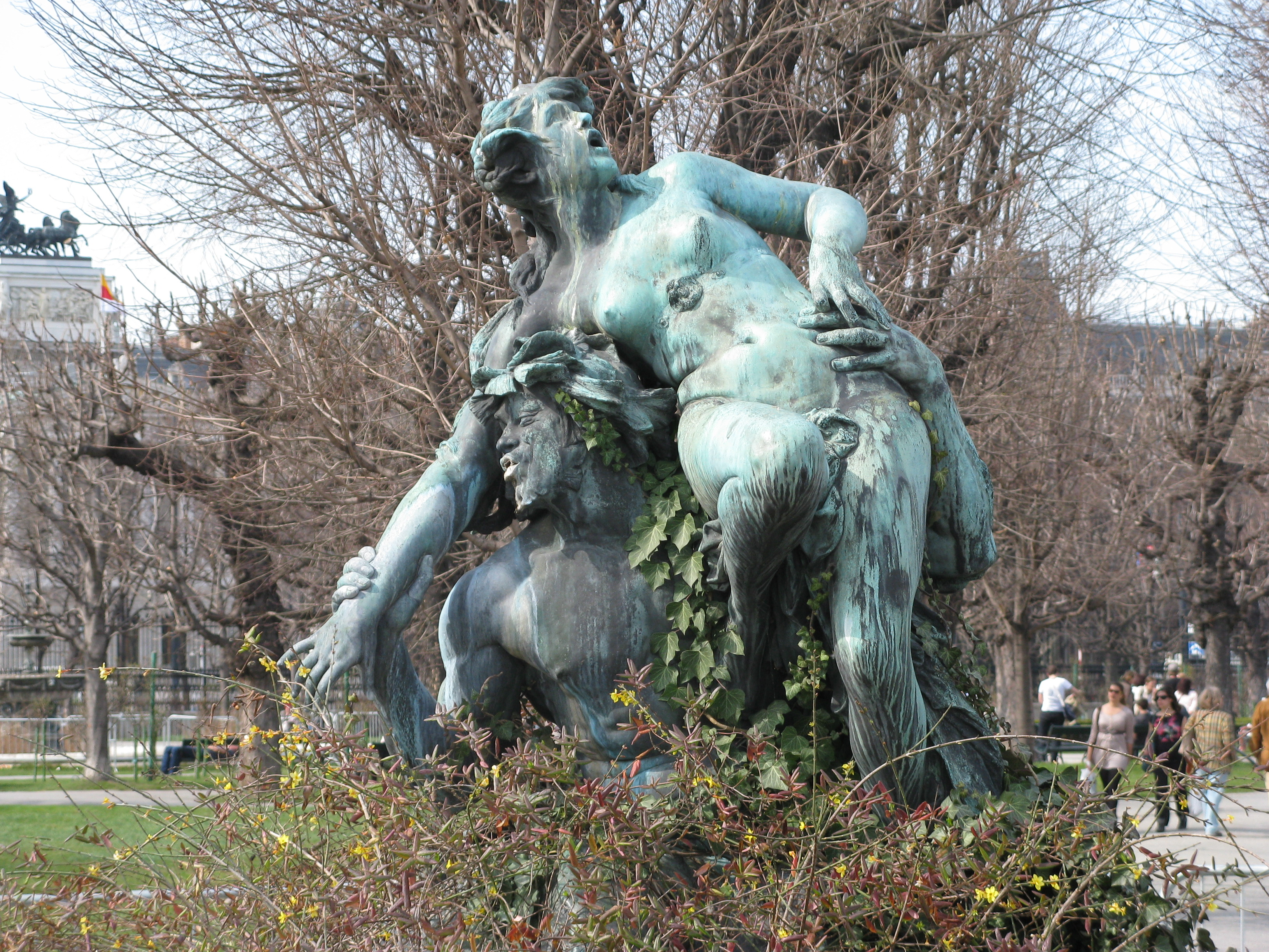 Triton und Nymphe fountain by Viktor Tilgner at Volksgarten.